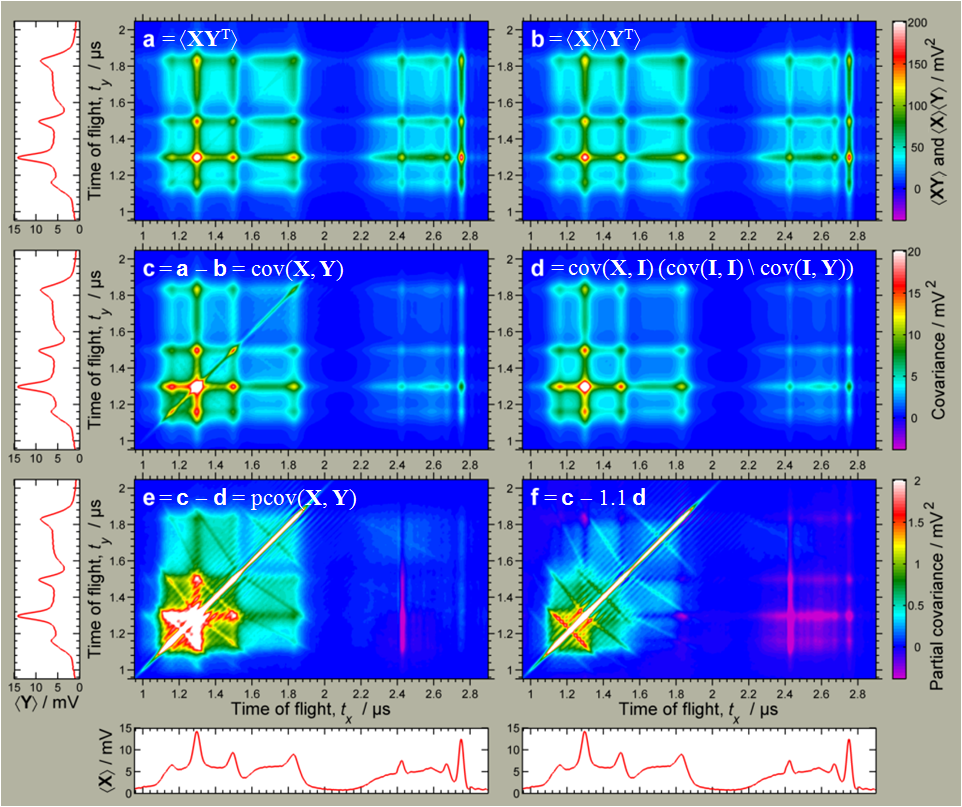 Stages of partial covariance mapping to resolve the ion momentum correlations in Coulomb explosion of N2 molecules. Owing to momentum conservation these correlations appear as lines approximately perpendicular to the autocorrelation line (and to the periodic modulations which are caused by detector ringing).